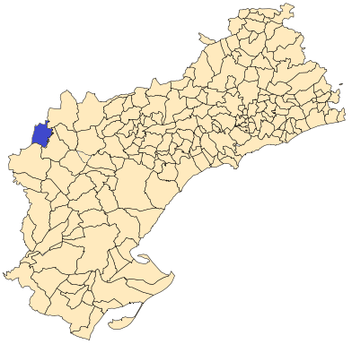 La Pobla de Massaluca